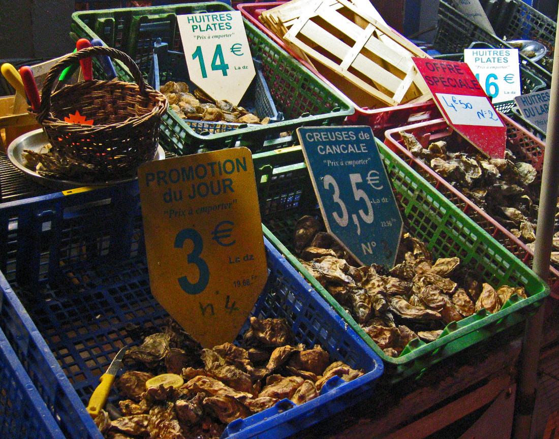 Oyster market at Cancale, Brittany, France.